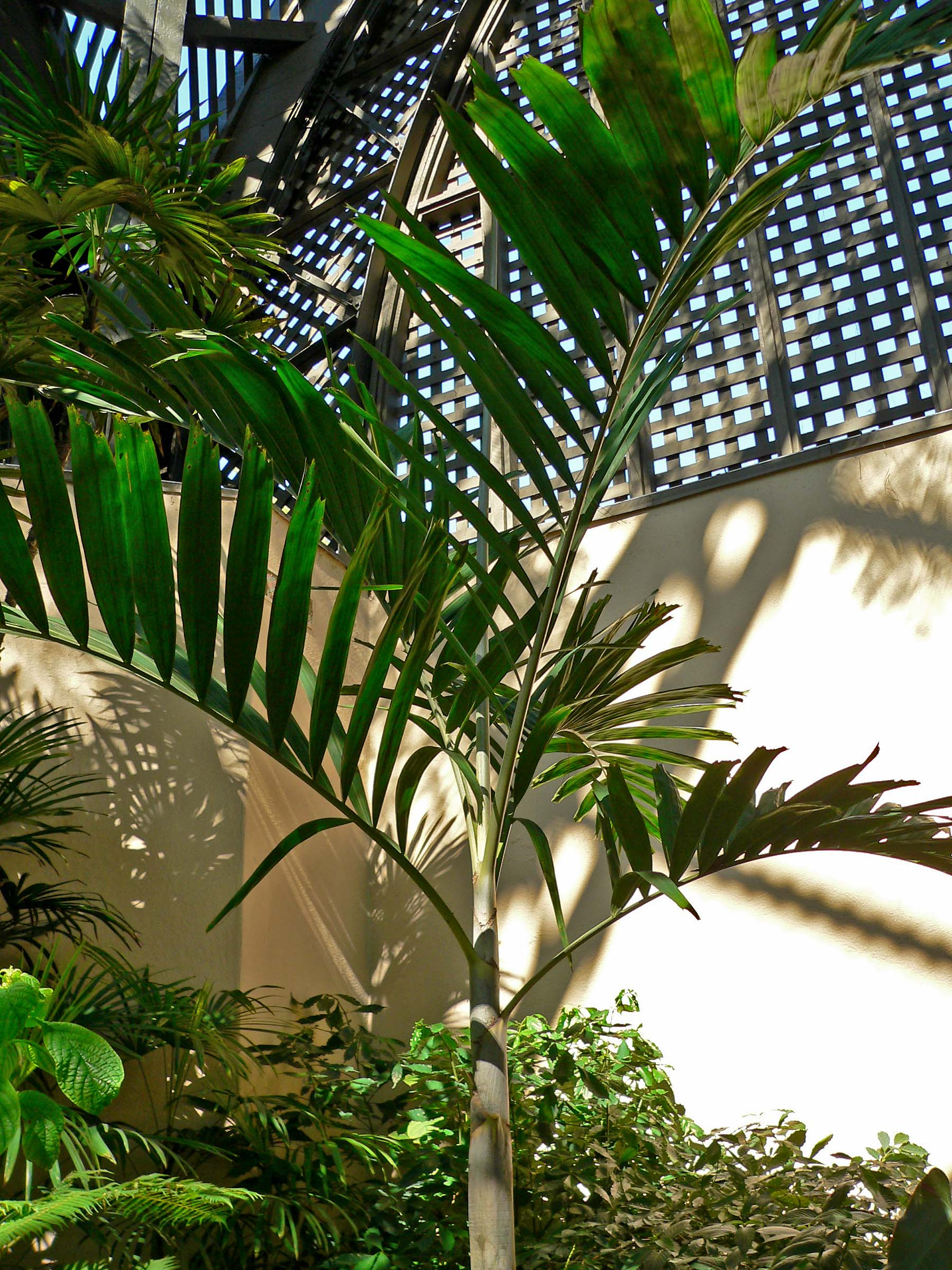 Photo of Ptychosperma elegans at Balboa Park